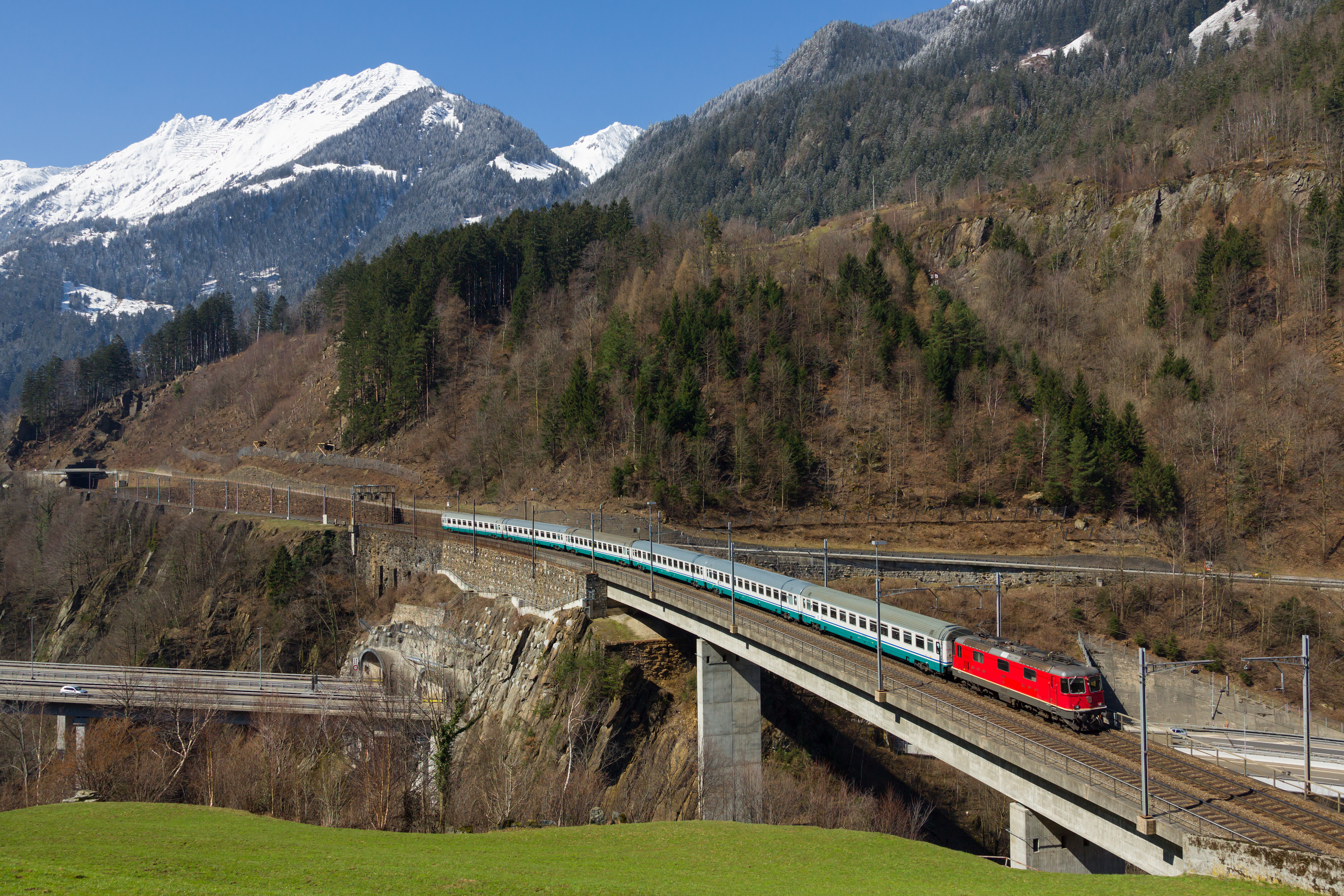 An SBB Re 4/4 II hauls a Eurocity consiting of Trenitalia coaches across the Intschireussbrücke near Amsteg, Switzerland.